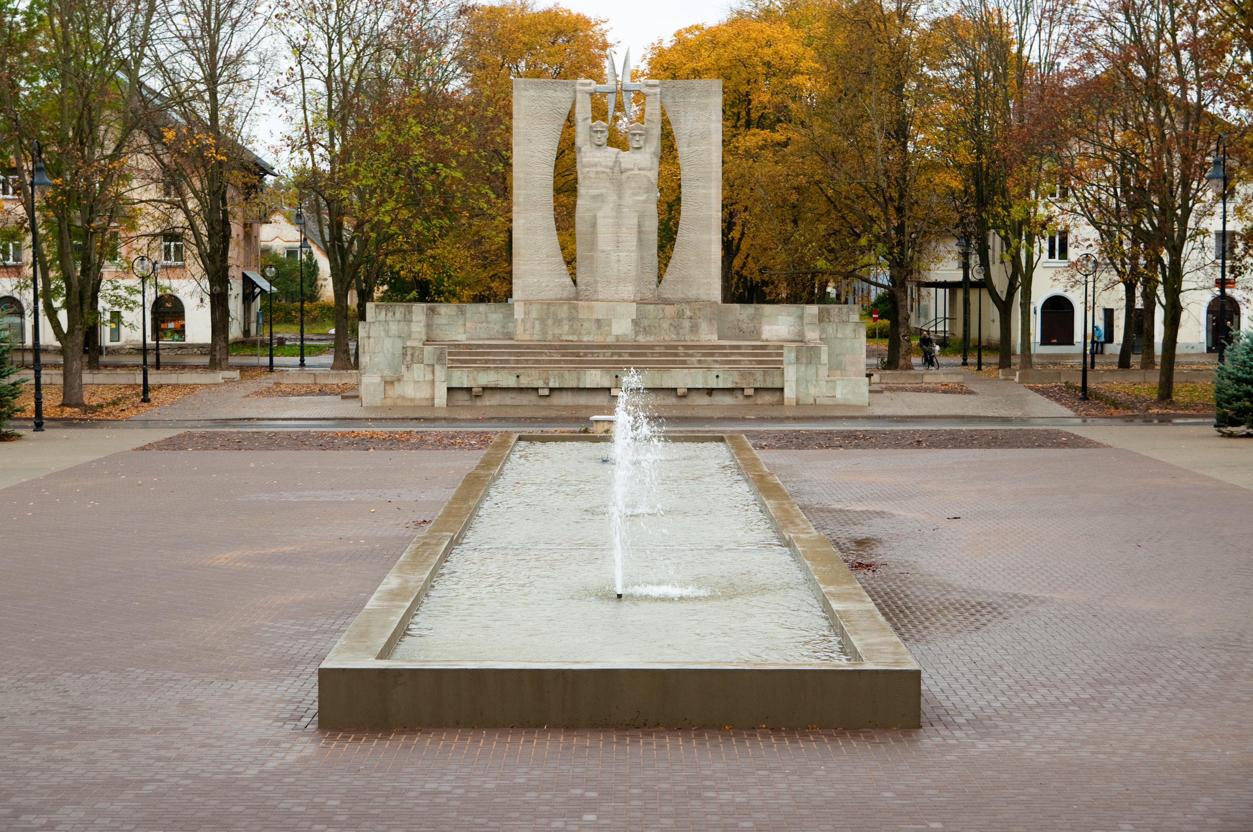 "Au Tööle!" monument in Kohtla-Järve in Estonia